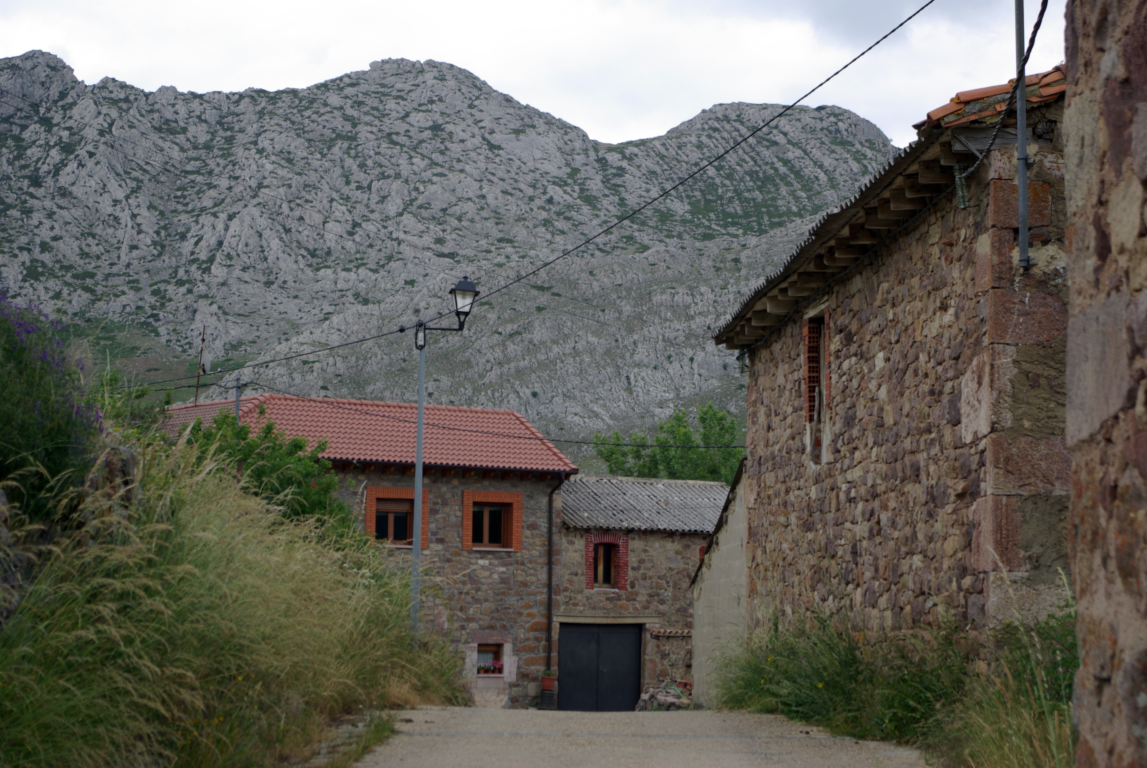 Arintero. (Valdelugueros, León, Spain).